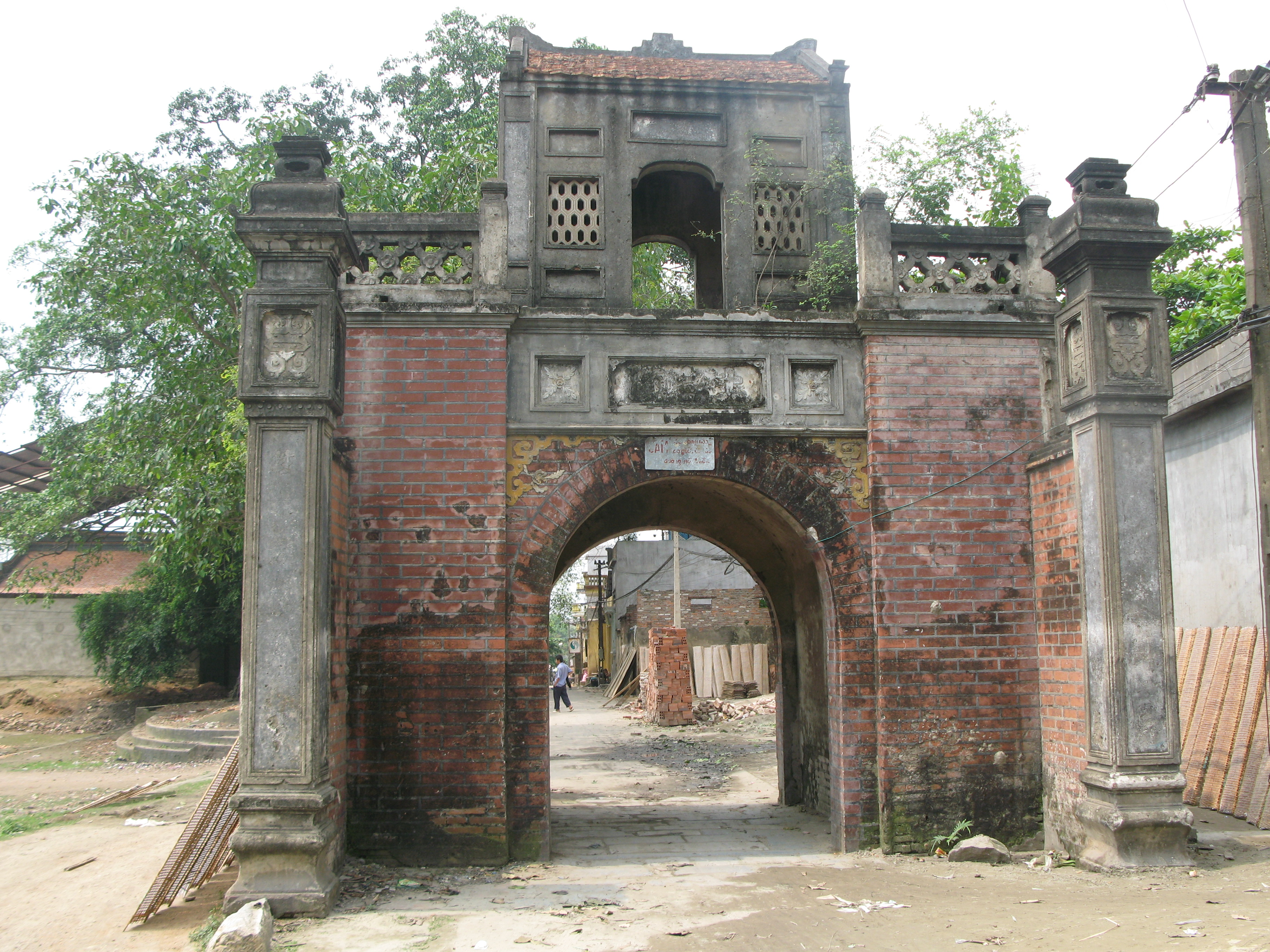 The ancient entrance to the Tho Ha village of Van Ha commune, Viet Yen district, bac Giang province